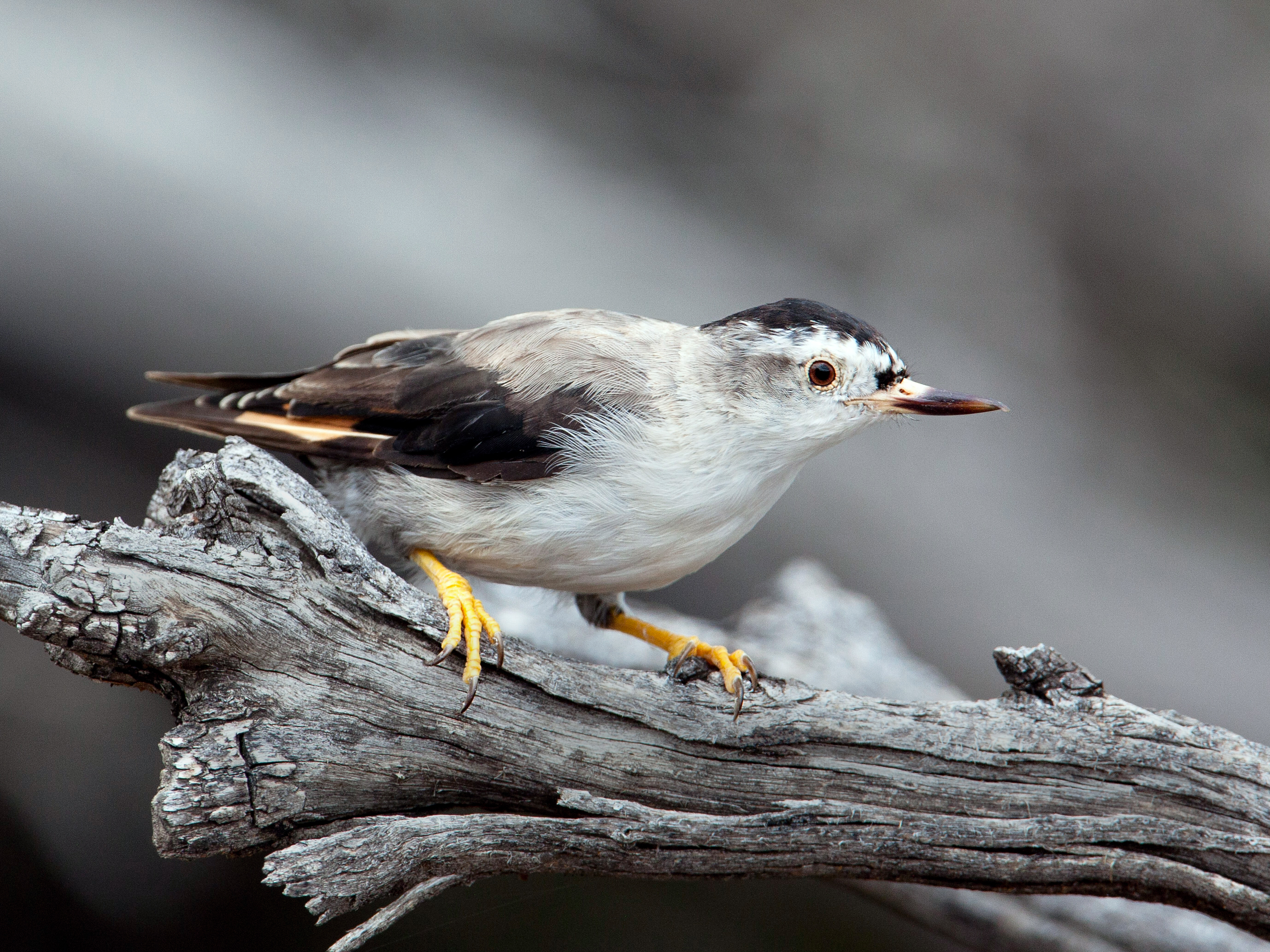 I had a close encounter with a family of Varied Sittellas (race, pileata). A couple of shots showing both male and female, in this race they have a distinctive black head, hence, former name of Black-capped Sittella. These shots were taken in very poor light so they lack a little vibrance (once again, I should have had the flash attached).